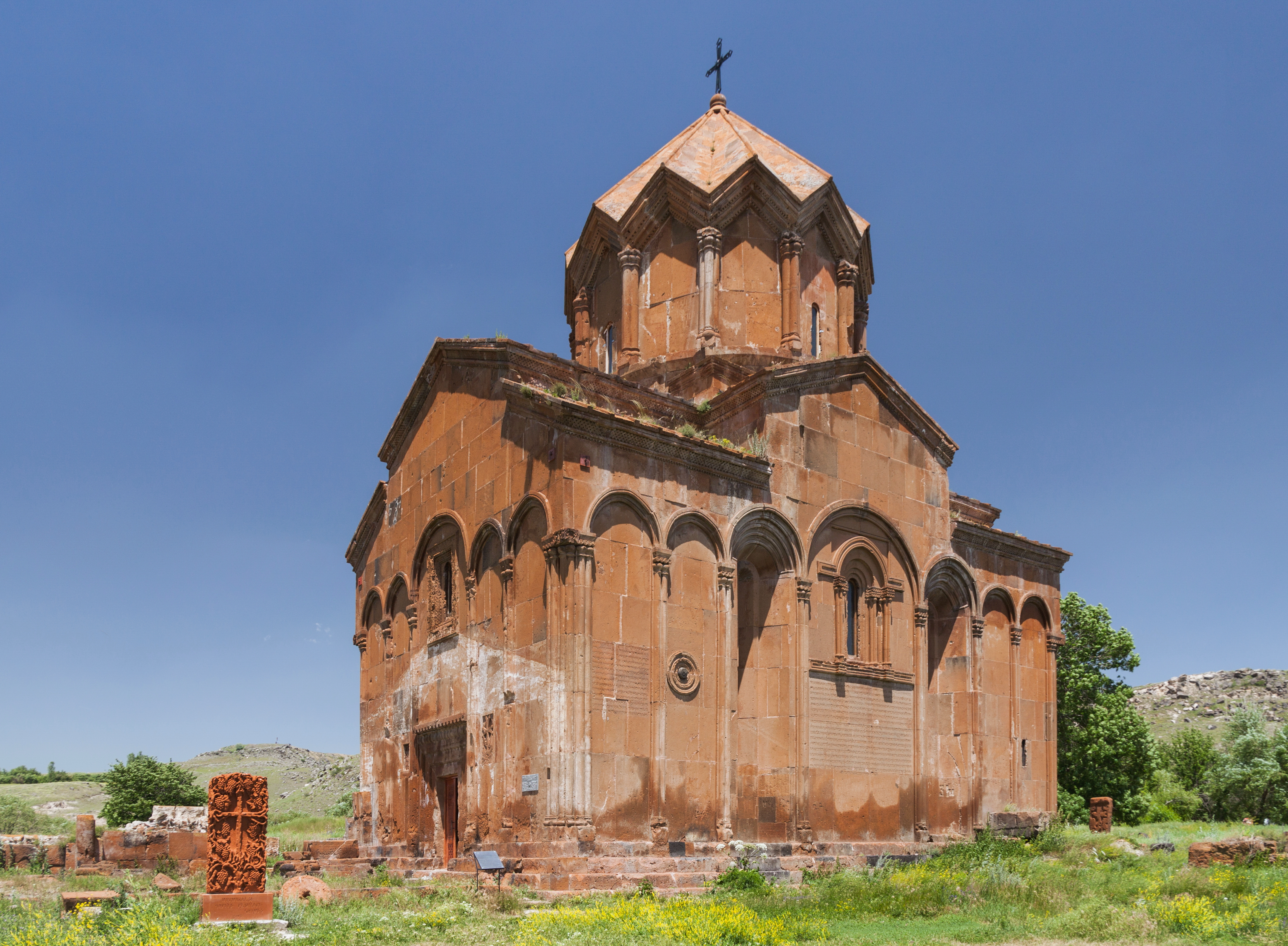 St. Stephen church. Marmashen Monastery. Shirak Province, Armenia.